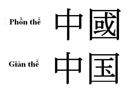 China in Chinese characters